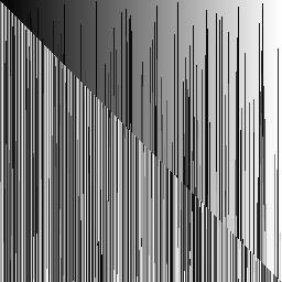 Keyschedule of RC4 algorithm (a widely used stream cipher). The graph represents the successive internal state of the permutation array. On the horizontal axis : the permutation value. On the vertical axis : the different iterations. Starting with a key "WIKIPEDIA" (72 bits) and an identity permutation (ie. the first line in the graph, which is a perfect gradient as byte 1 is swapped with byte 1, byte 2 with byte 3, etc.), the keyschedule swaps two bytes at each iteration. At the end of the 256 iterations, the last line is sufficiently shuffled for cryptographic use and the keystream generation.